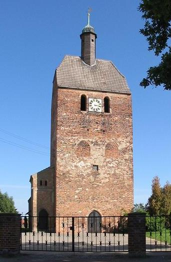 Stonechurch in Bardenitz in the landscape Fläming, built in the first part of the13th century. The village Bardenitz is a part of the town Treuenbrietzen in the district Potsdam-Mittelmark, state Brandenburg, Germany.